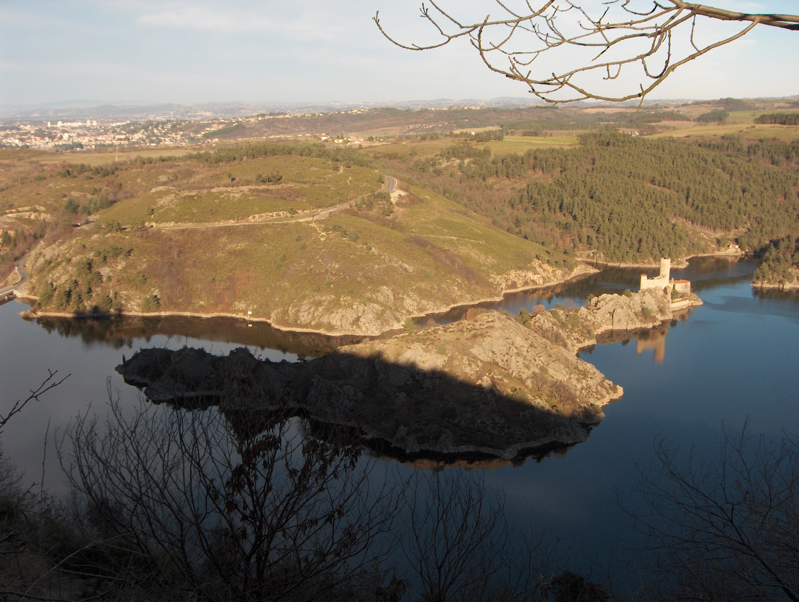 Island of Grangent, with the Château de Grangent (Loire, France).